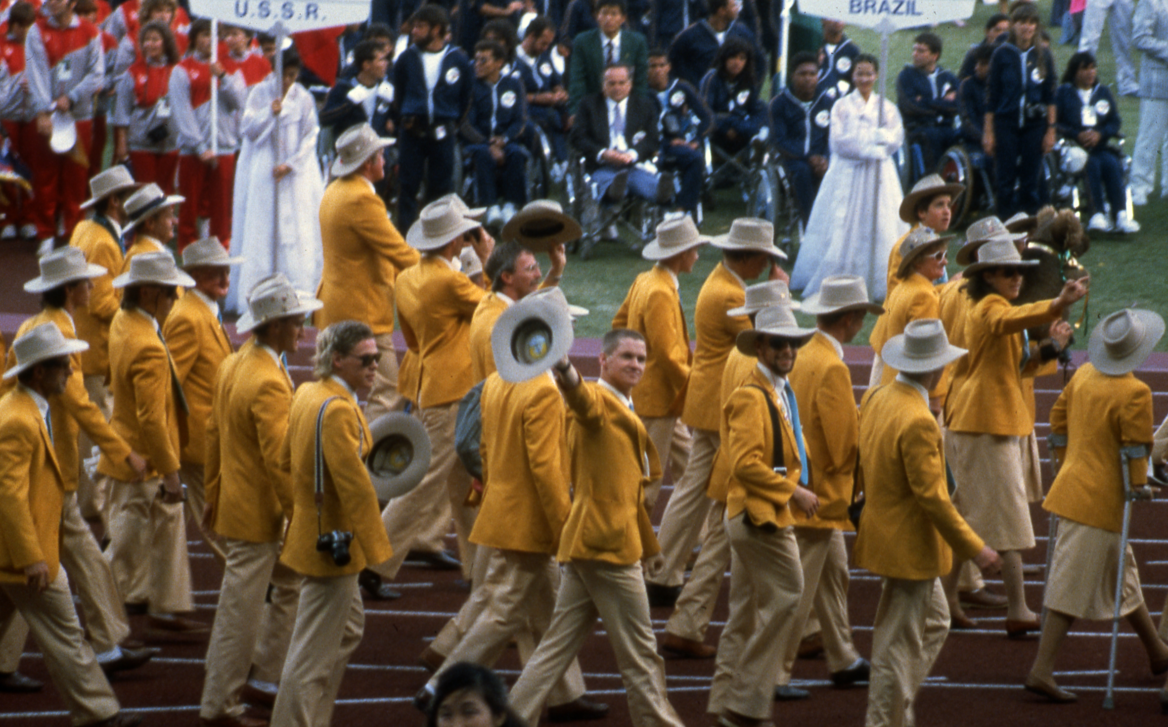 Australian team marches in opening ceremony 1988 Seoul Paralympic Games